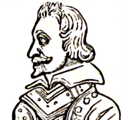 Frederick I. William, duke of Teschen (1617-1625). A cut-out from a drawing by Hugo von Saurma-Jeltsch, 1883, based on a coin portrait minted in 1623.